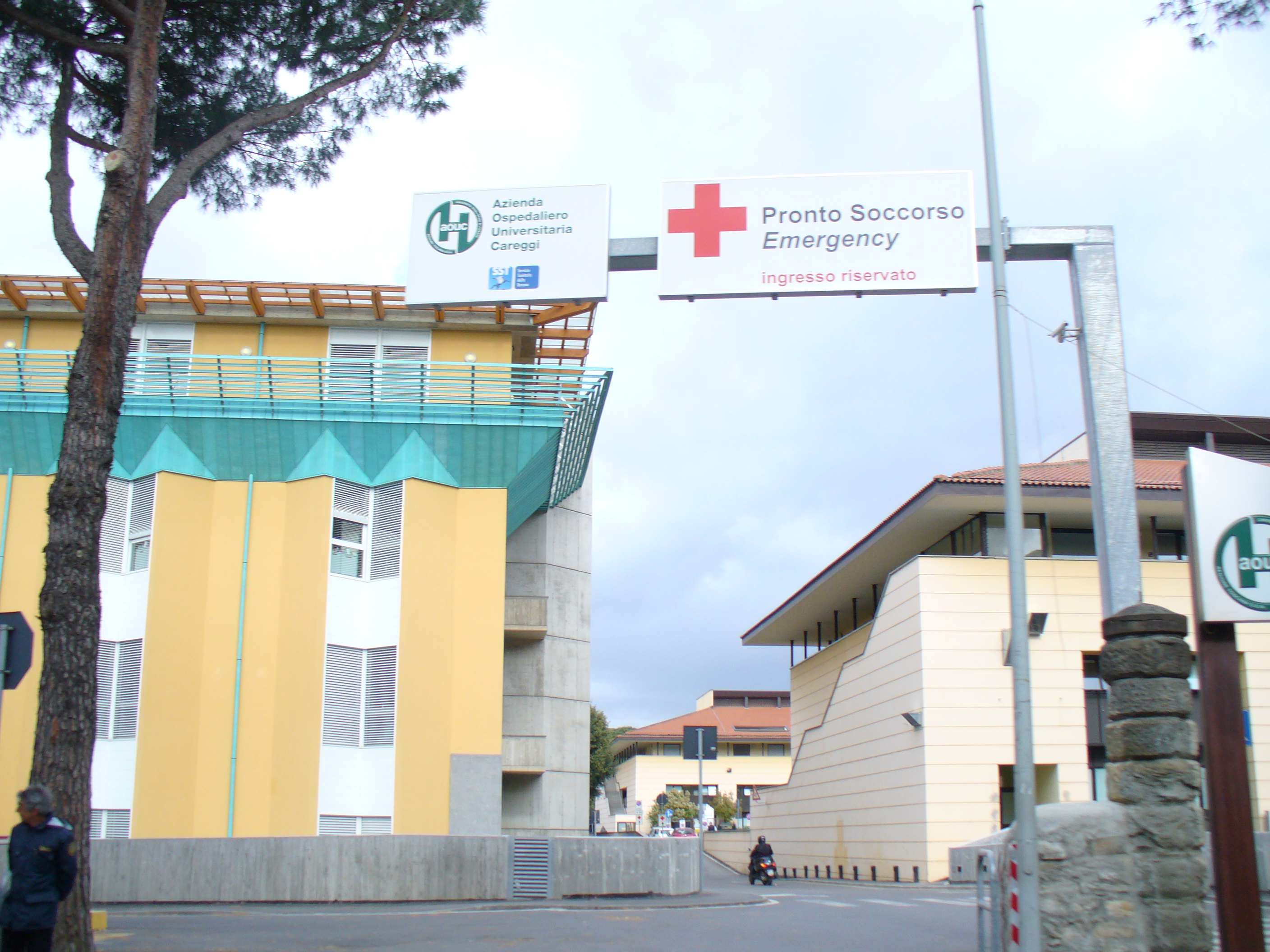 Careggi Hospital